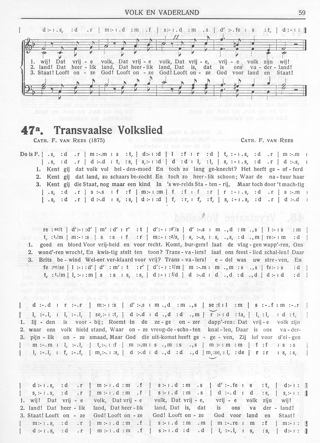 Excerpt from the F.A.K.-Volksangbundel.